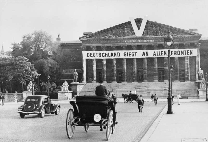 Title: Paris, deutsche Besatzung, Bourbon-Palast Factual corrections and alternative descriptions are encouraged separately from the original description. Additionally errors can be reported at this page to inform the Bundesarchiv. Original historic description: Buchstabe "V" und Banner mit der Parole "Deutschland siegt an allen Fronten" am Bourbon Palast, Paris, Frankreich. (Abgeordnetenkammer)